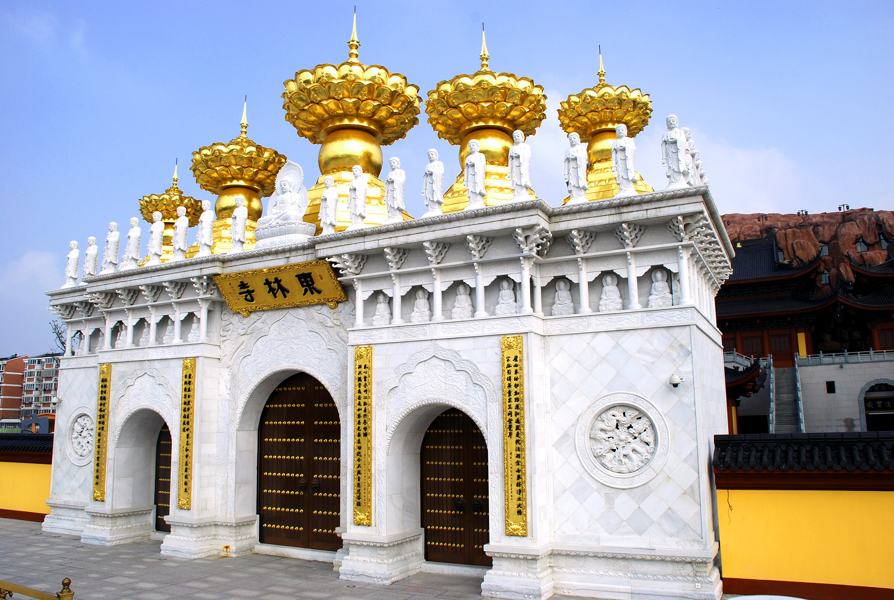 Donglin Temple in Zhujing Town, Jinshan District, Shanghai